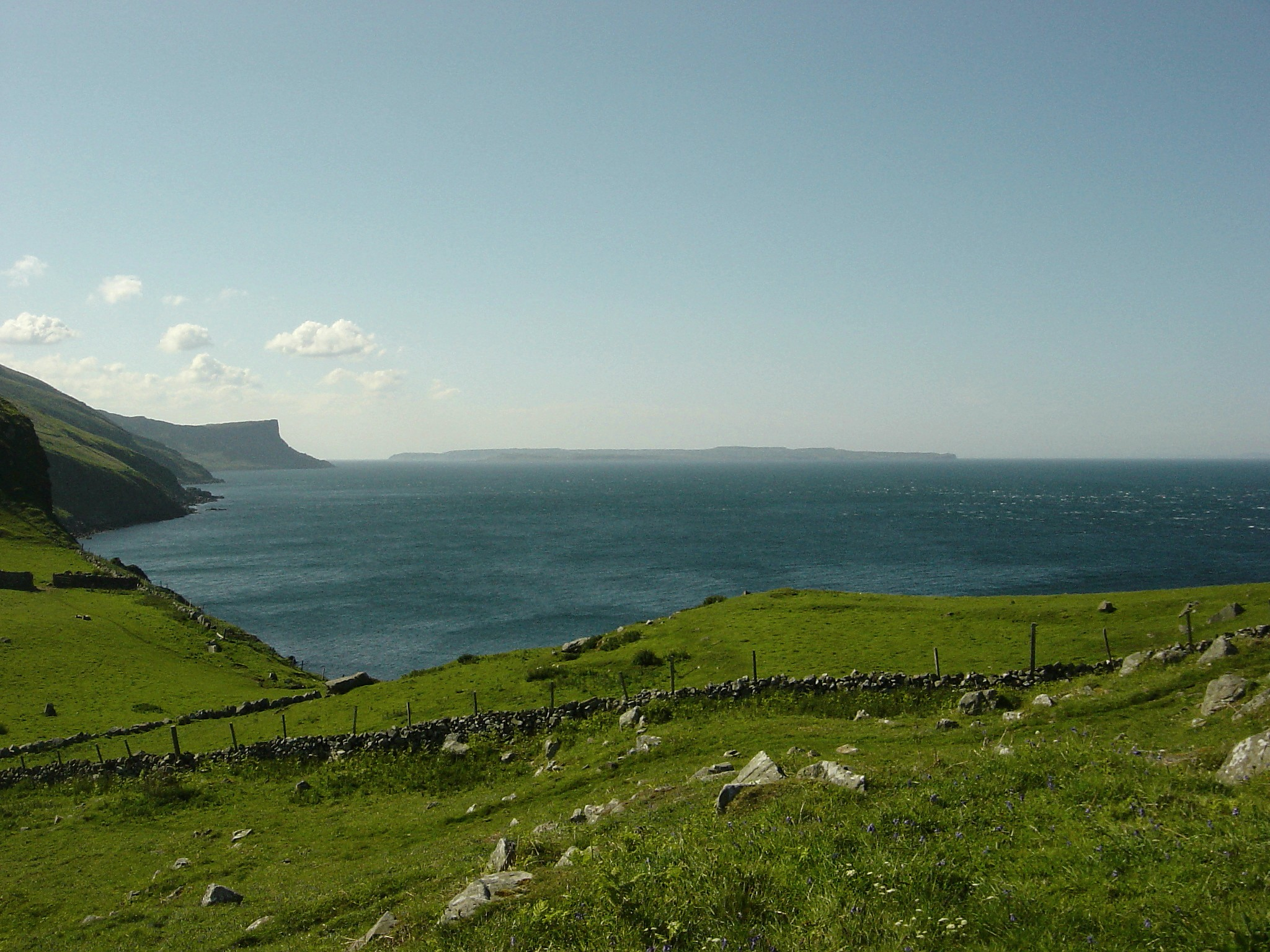 Rathlin Island as seen from Torr Head with Fair Head to the left